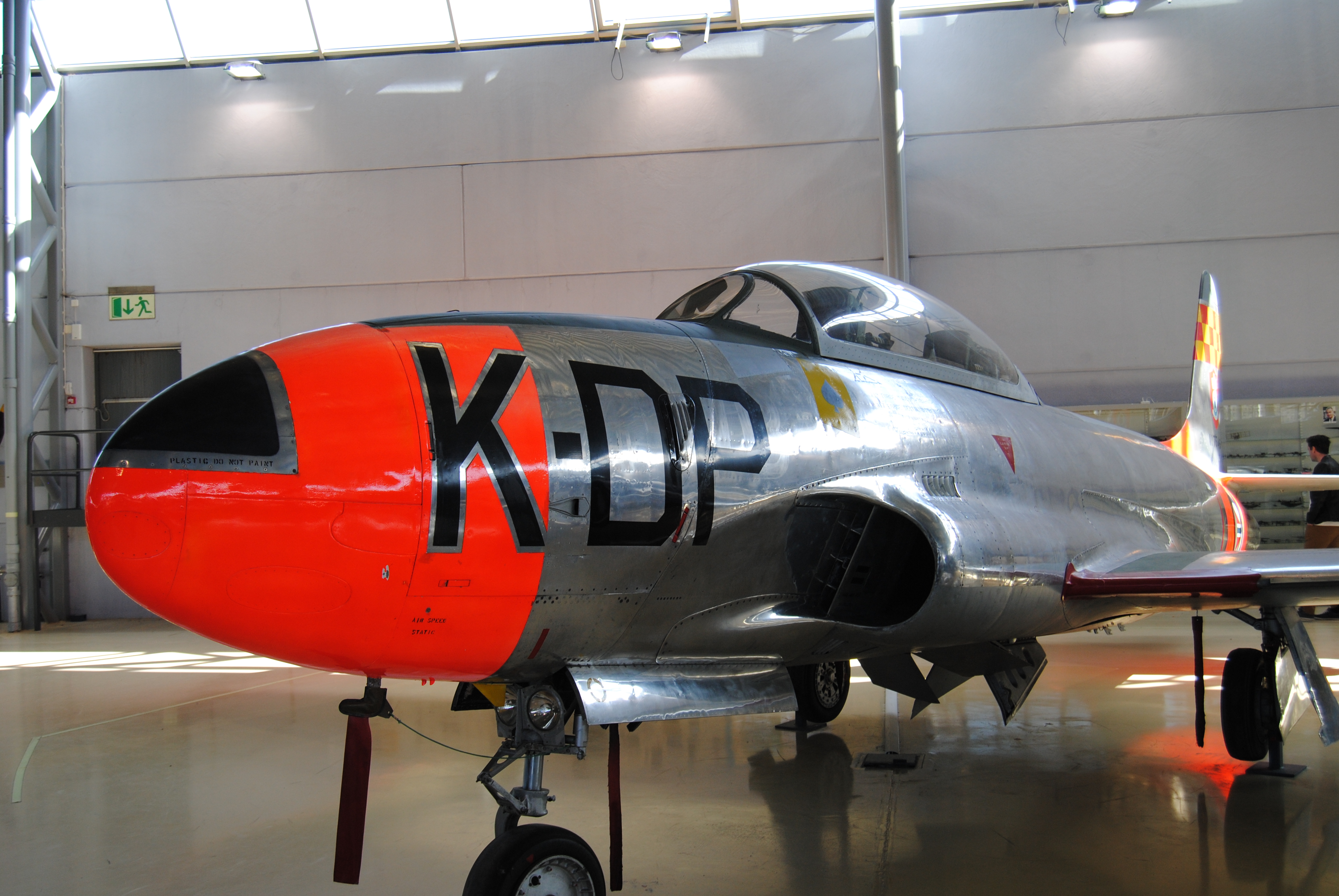 Lockheed T-33A displayed in the Norwegian Armed Forces Aircraft Collection